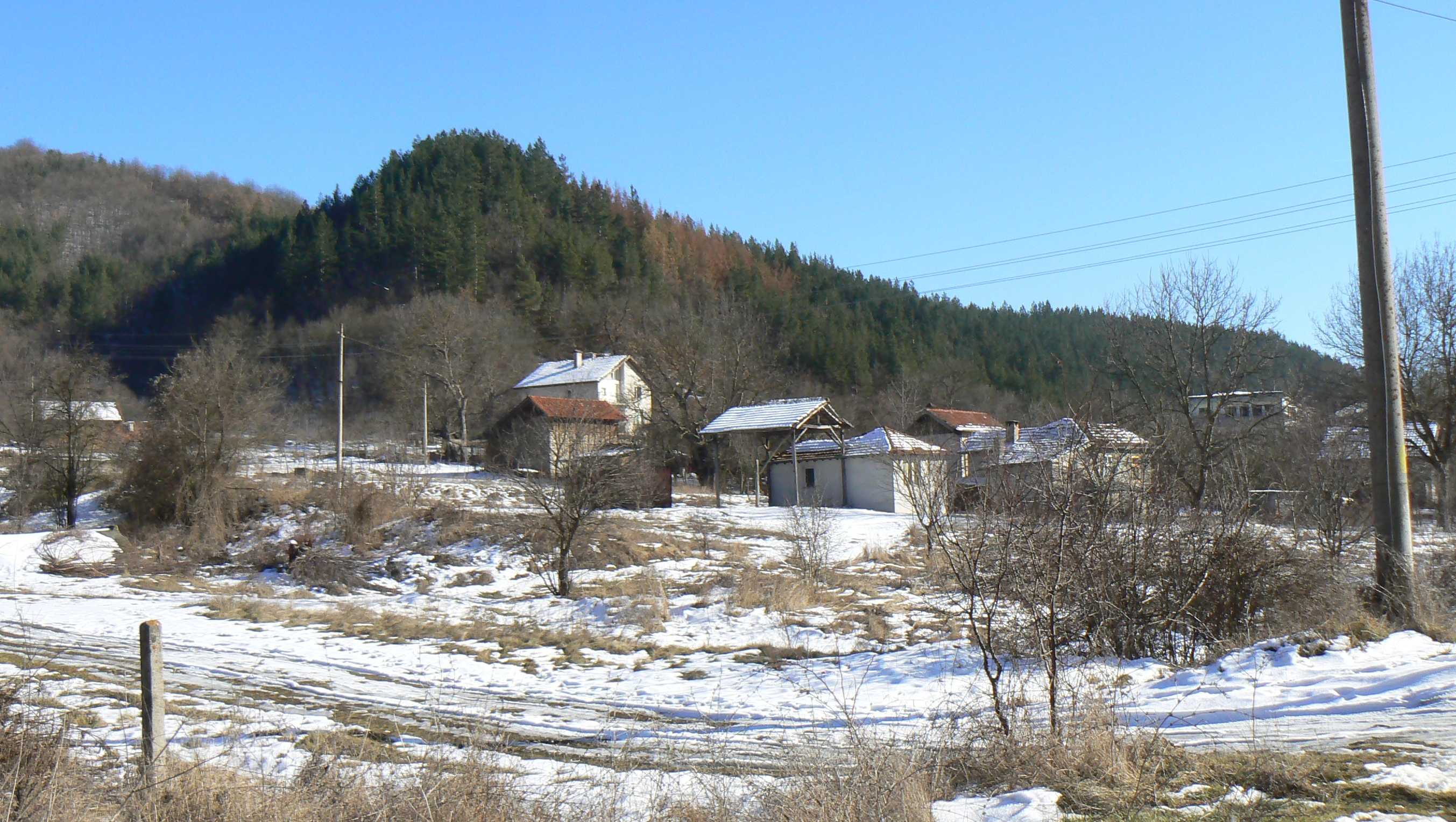 Houses in village Vranya Stena, Bulgaria, scattered on the southern slope of Rudina Mountain